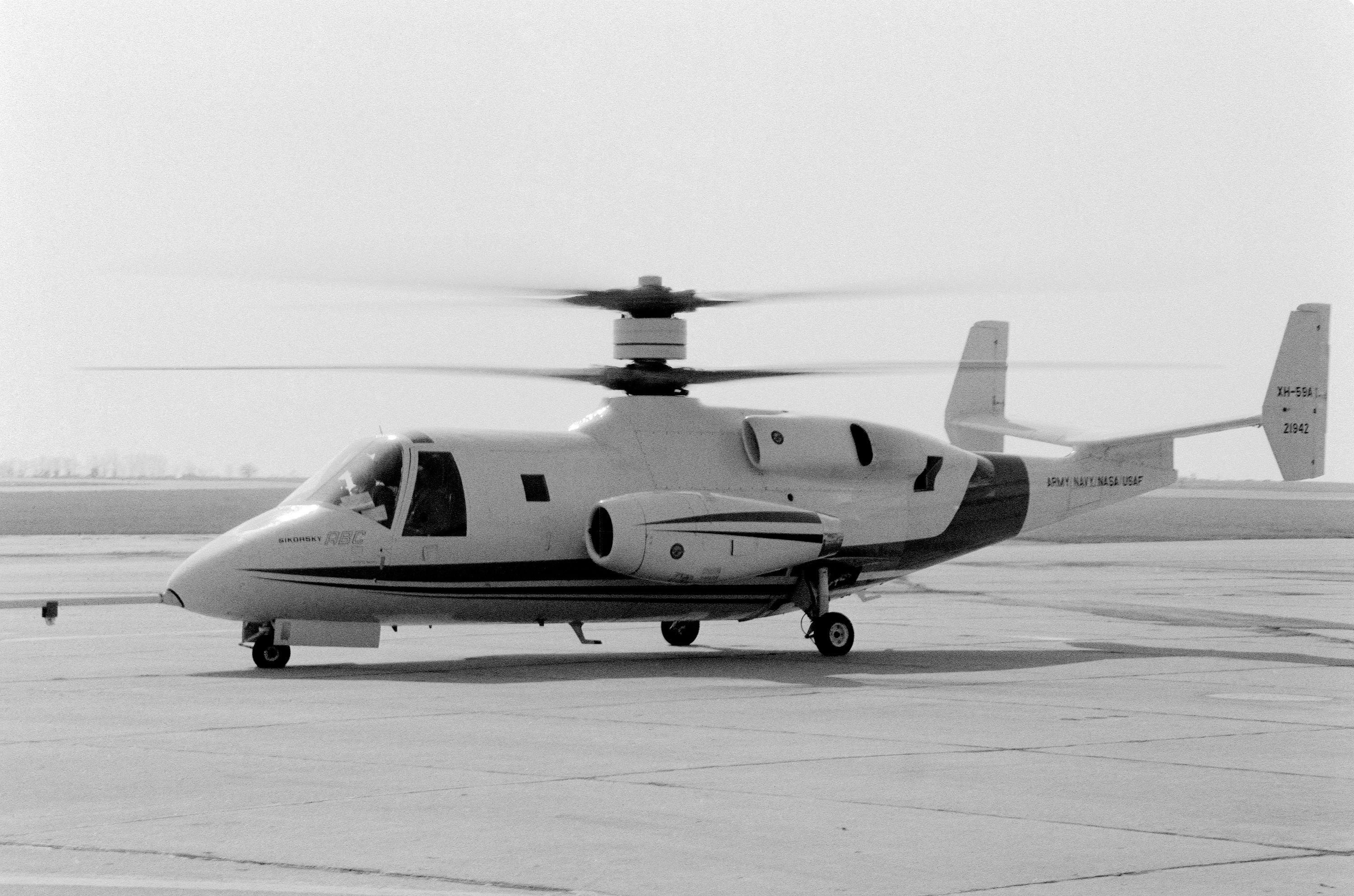 Front view of an XH-59A Advancing Blade Concept (ABC) rotor system aircraft in flight at the Marine Corps Development and Education Command Air Facility.